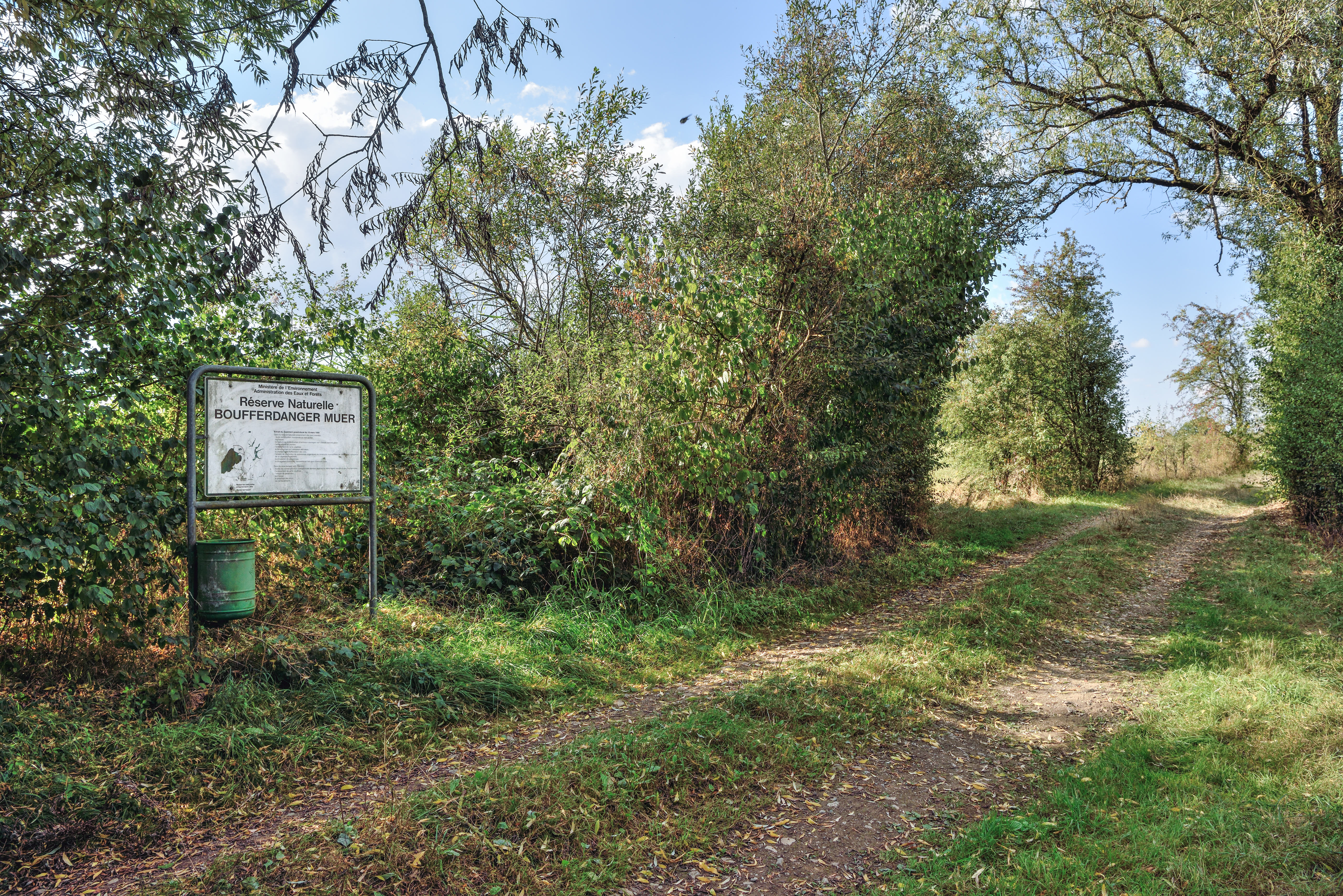 Nature Reserve Boufferdanger Muer in Luxembourg, commune of Käerjeng.